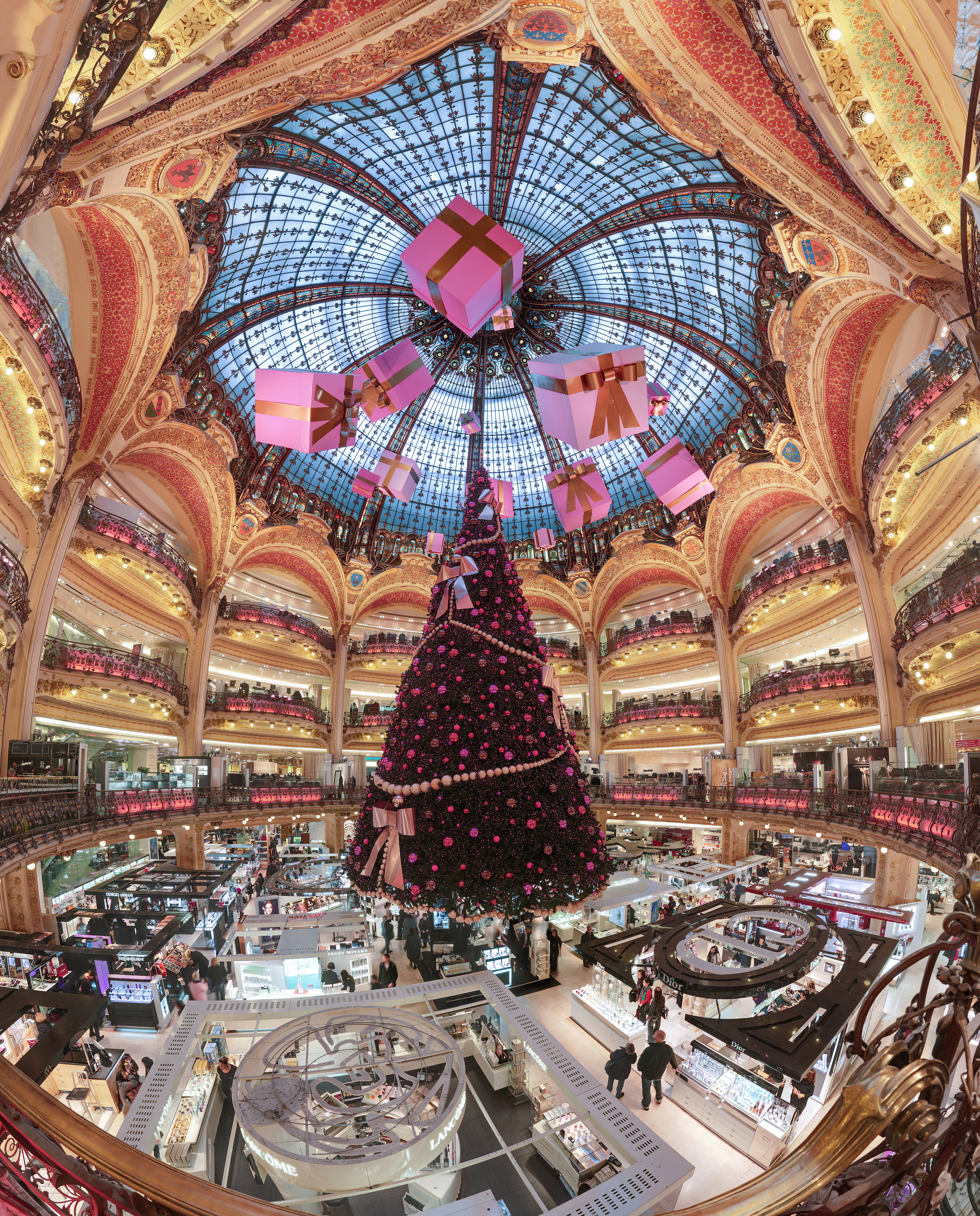 Dome and balconies of Galeries Lafayette store, lady section, in boulevard Haussmann, Paris, with Christmas decorations. This picture has a 170° field of view. Česky: Vánoční výzdoba v obchodním domě Galeries Lafayette na pařížském boulevard Haussmann. Snímek zachycuje úhel 170° a je složen z 51 fotografií (tři panoramata po 17 snímcích se třemi hodnotami expozice).